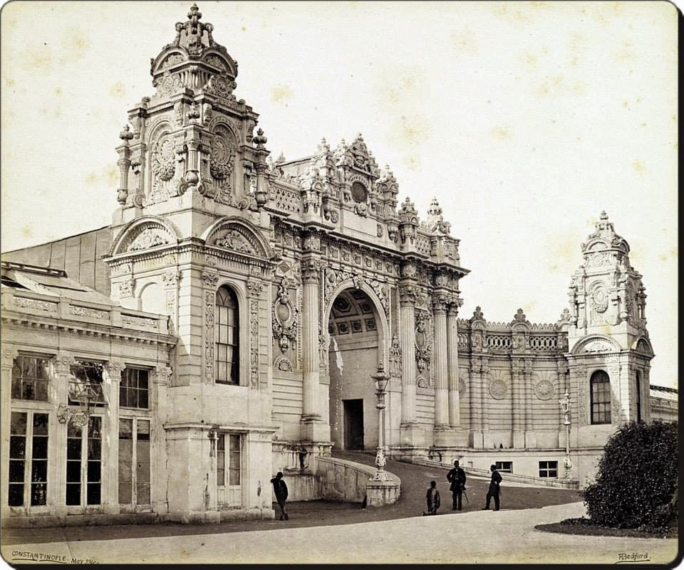 Dolmabahçe Palace in 1862